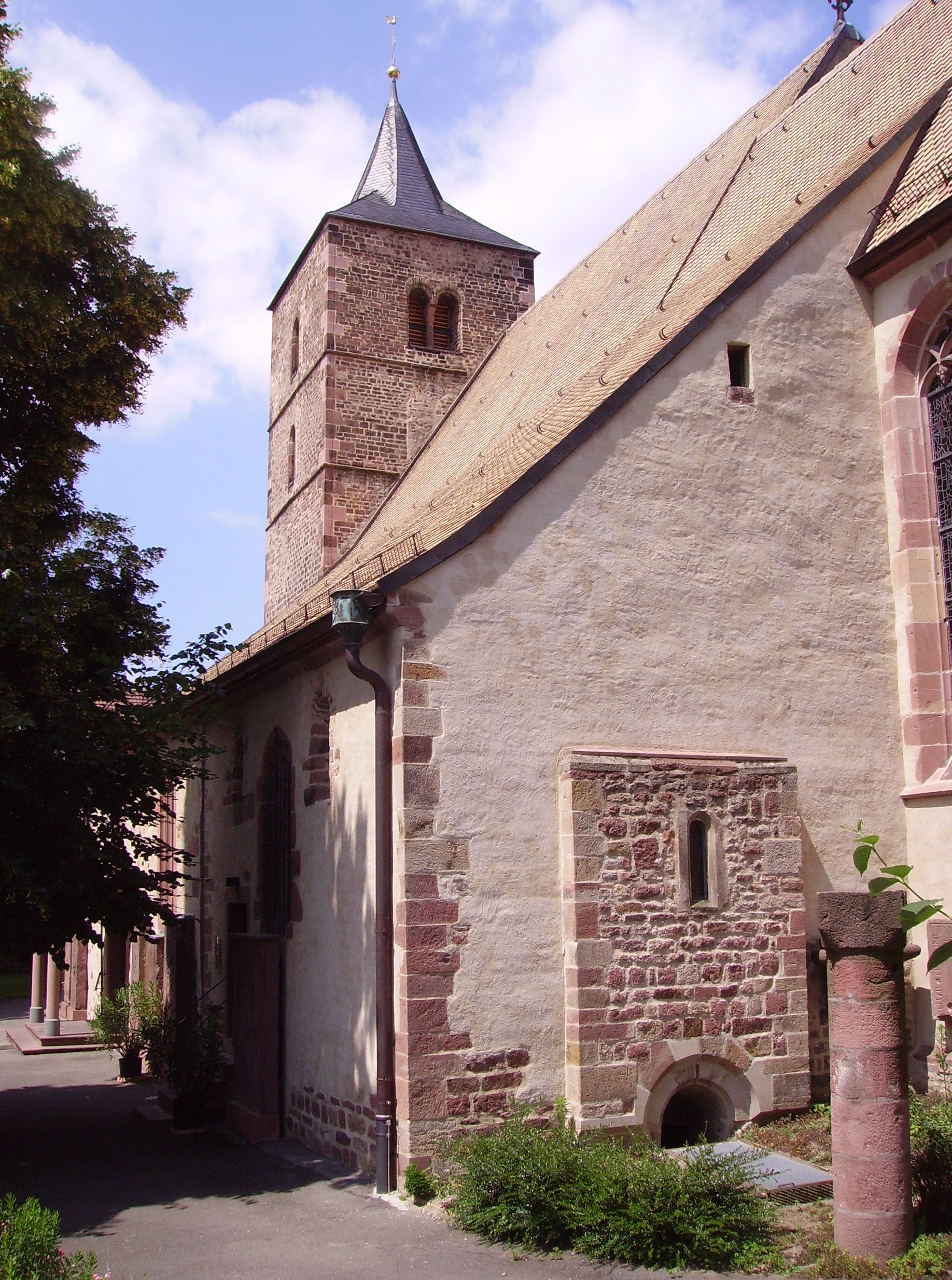 Heidelberg-Handschuhsheim, Germany